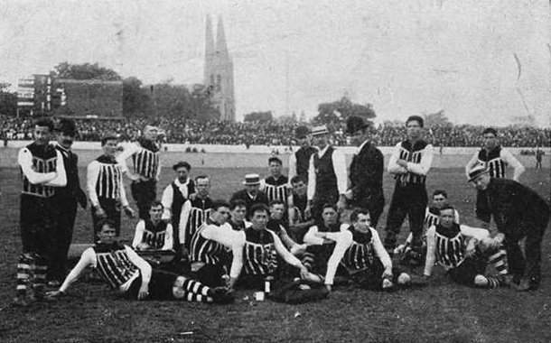 The 1910 SAFL premiers Port Adelaide during an intermission labelled "lemon time". Standing left to right: C.Cock, A. Sangstisr, O'Grady, Dempster, J. Gill, J. McGargil, S. Gill, H. Oliver, A. Congear, A. Bell, A. Hosie Sitting left to right: A. Sangster, Hosking, A. Biscomb, McFarlane, F. Hansen, S. Woolman, Hodge, H., Curnow, McEwin, Magar, S. Dickson, J. Middleton, B. Ogwar, H. Rose, Woolard.